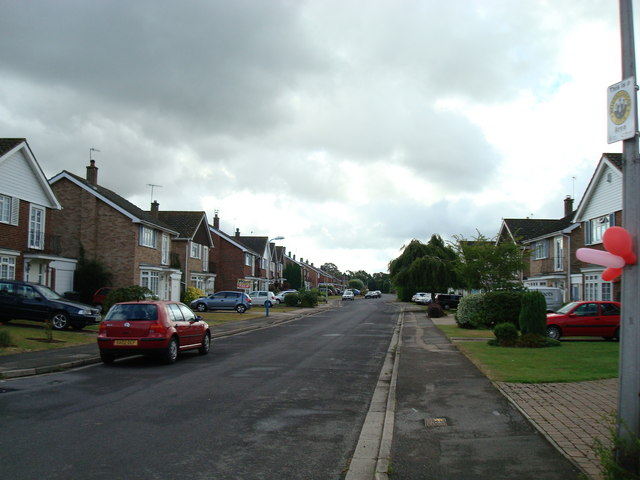 Stacey Road, Hildenborough